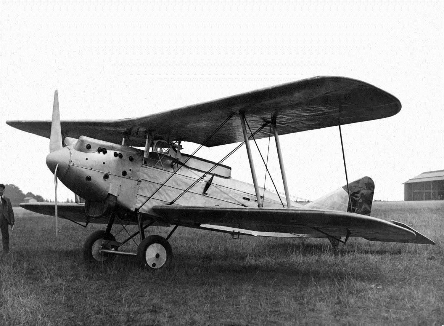 ACAZ C.2 of the Belgian Air Force